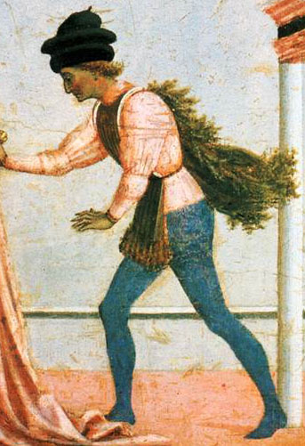 Martyrdom of St Lucy (predella 5) (fragment) c. 1445 Tempera on wood, 25 x 29 cm Staatliche Museen, Berlin